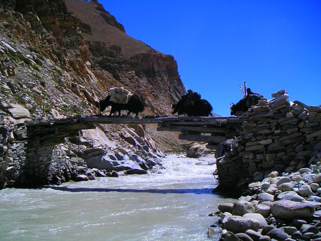 Complex Tibetan log bridge, approximately 50 km southeast from Tingri Shekar